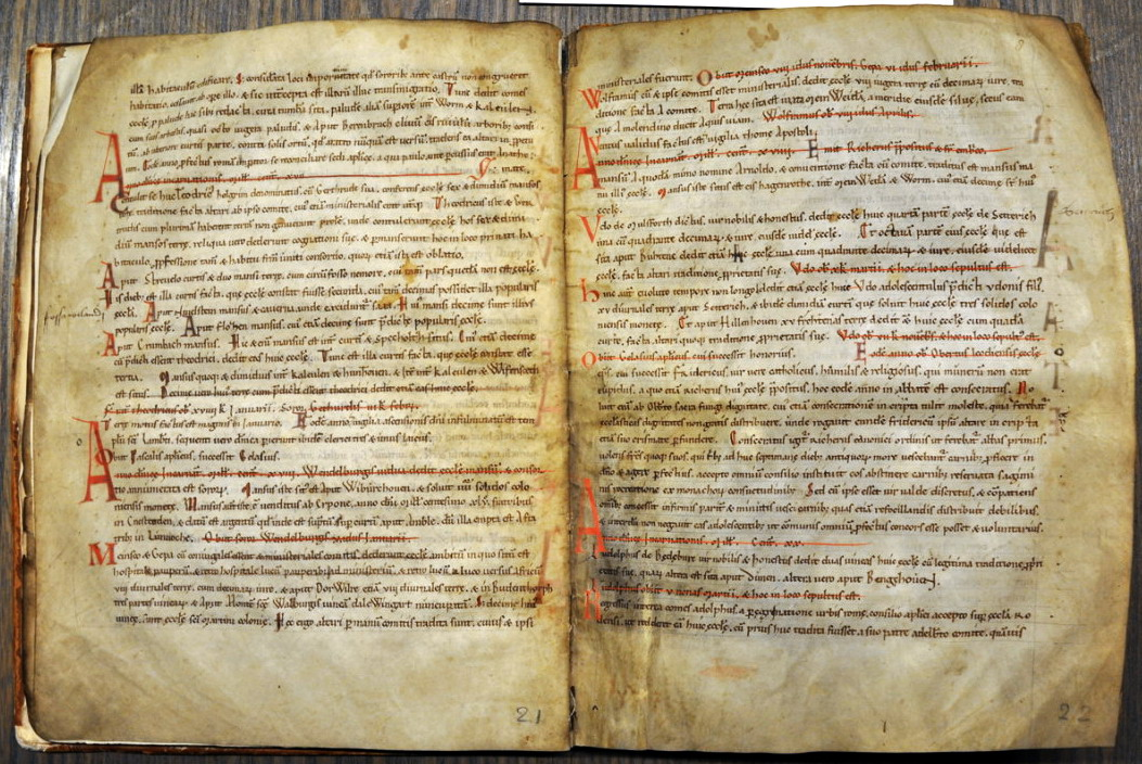 Two pages from the Annales Rodenses, the 12th-century chronicles of the Abbey of Rolduc in Kerkrade, the Netherlands. The original is kept in the Regional Historical Archives (RHC) in Maastricht.